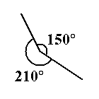 Pair of explementary angles (also conjugate angles) - 150° and 210°